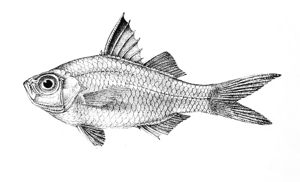 The species names / identity need verification. The original plates showed the fishes facing right and have have been flipped here. Ambassis gymnocephalus